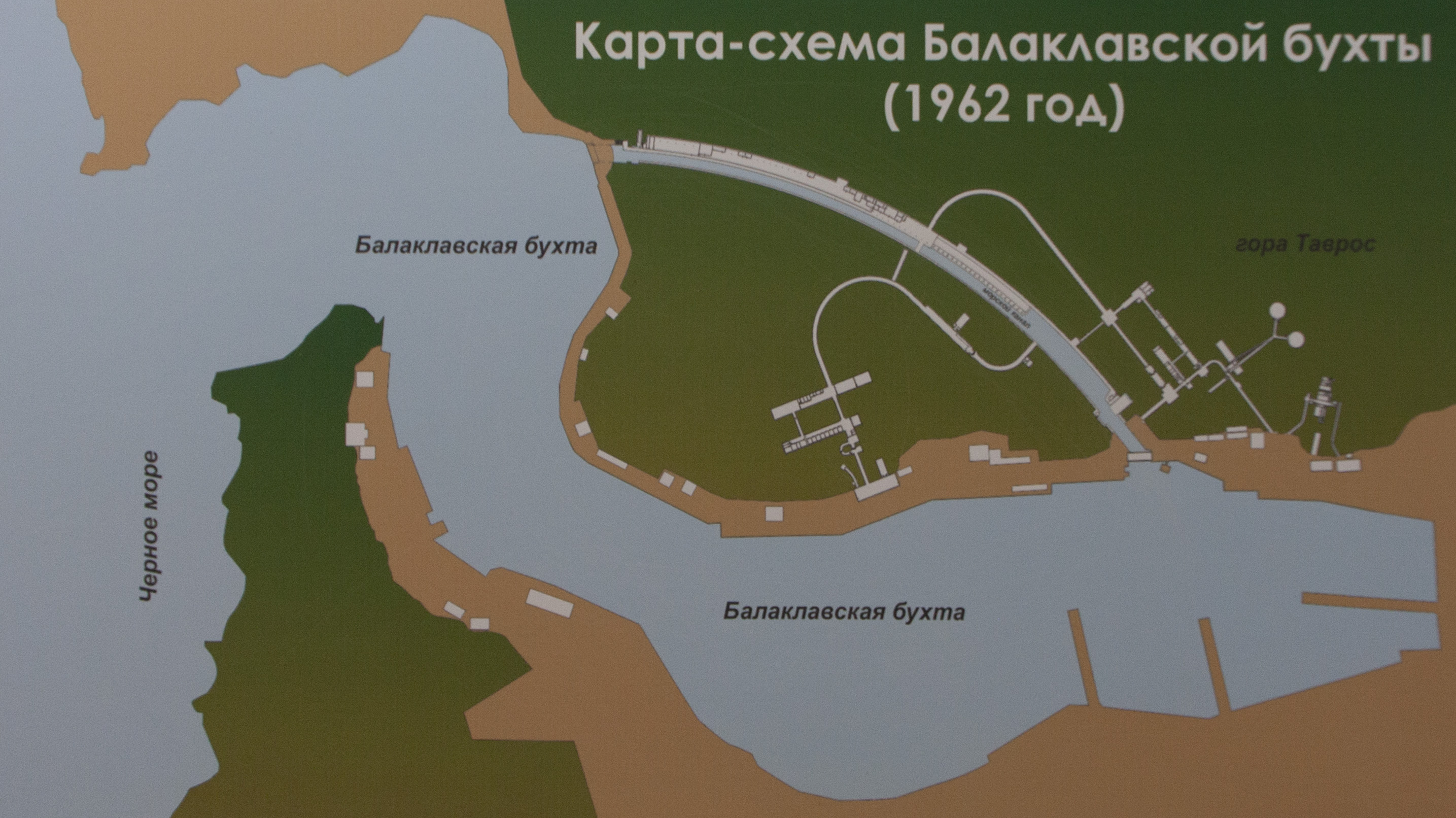 Naval Museum Balaklava